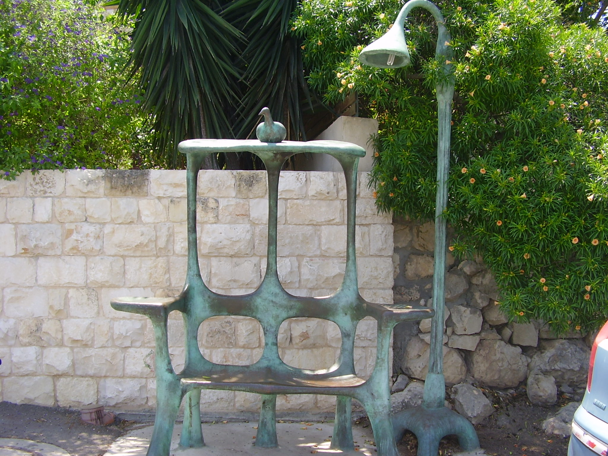 Surreal Peace Chair in Ein Hod